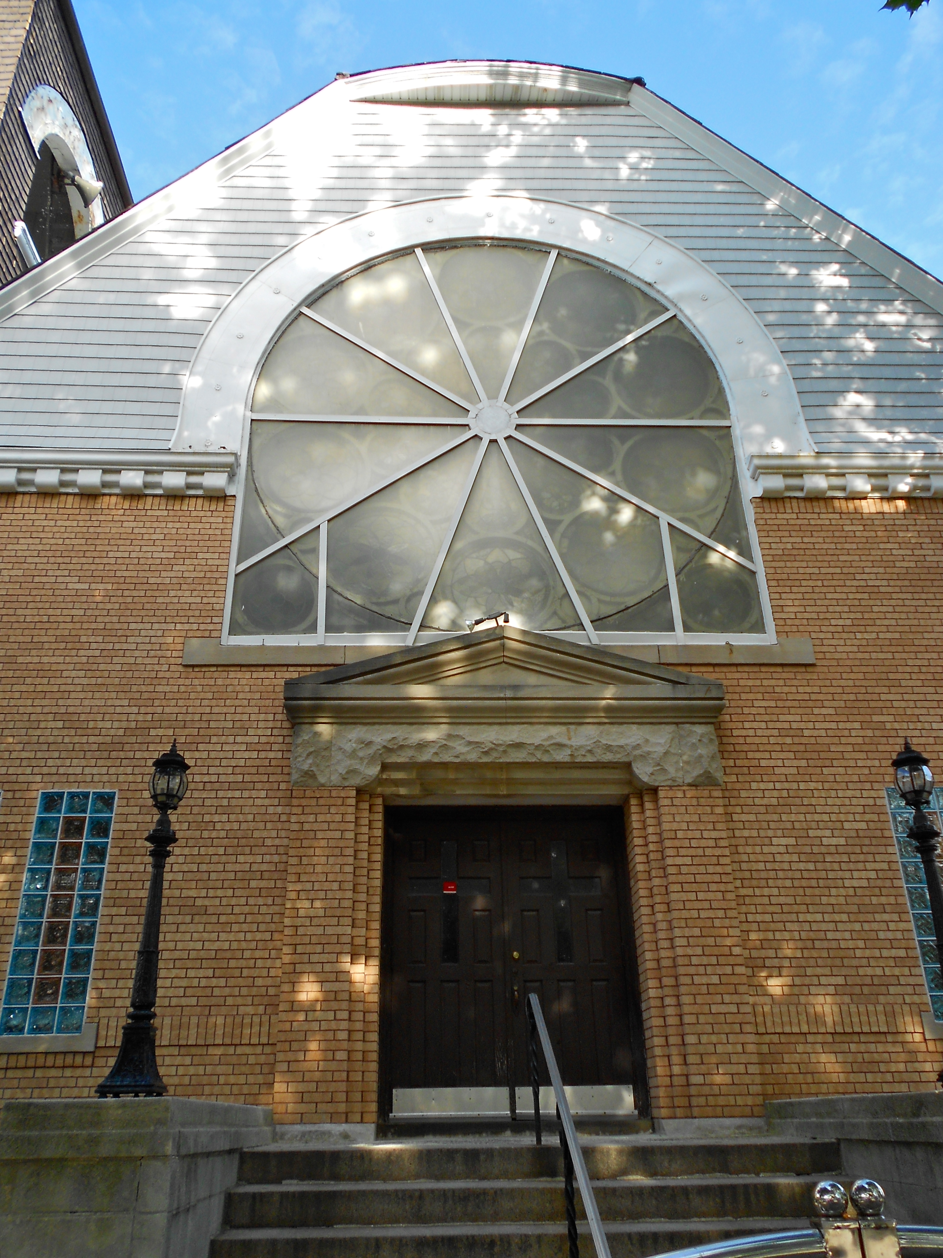 Andrews United Methodist Church on the NRHP since January 22, 1992. At 95 Richmond St., Brooklyn, New York